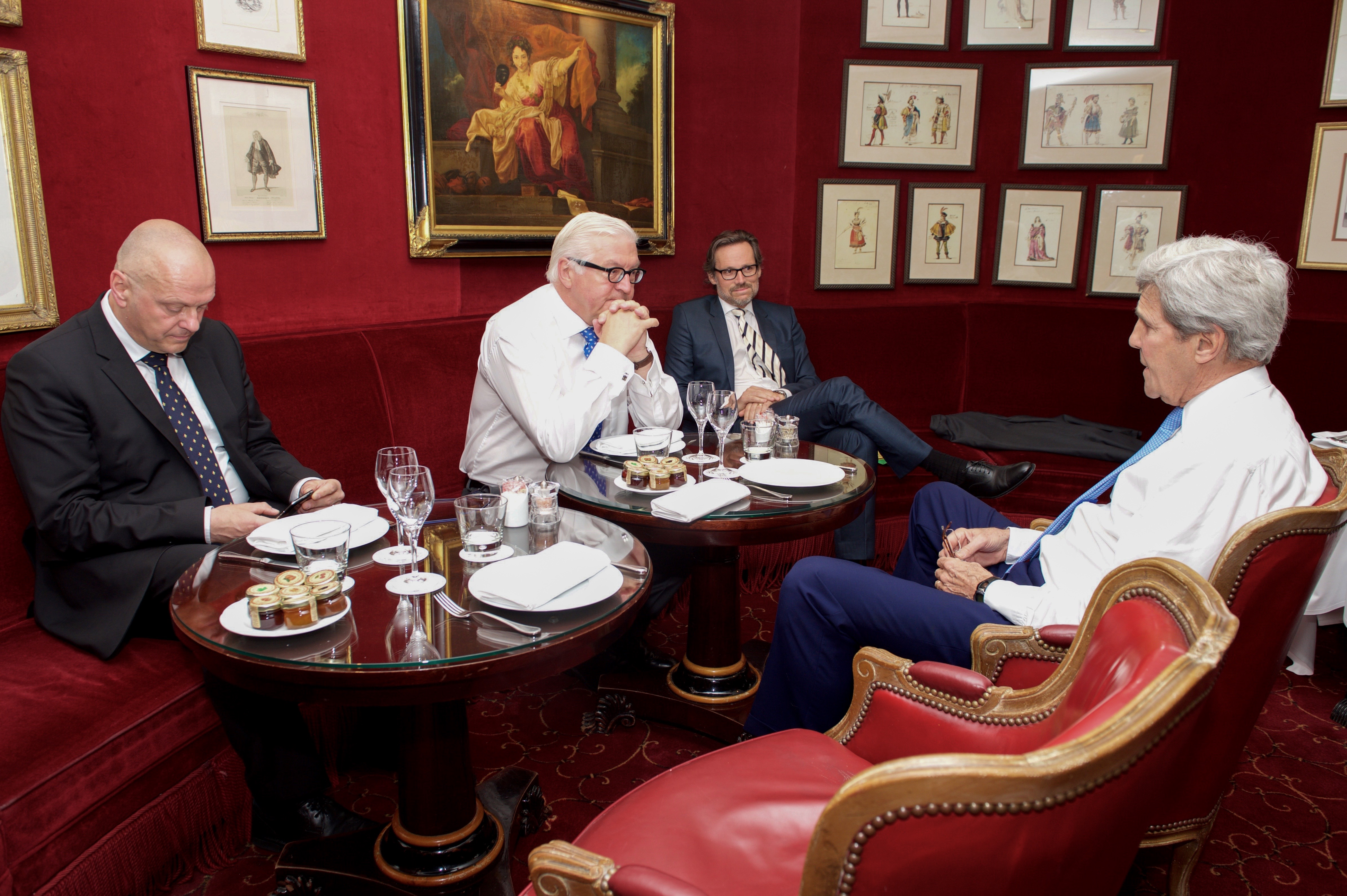 U.S. Secretary of State John Kerry sits with German Foreign Minister Frank-Walter Steinmeier on May 10, 2016, at the Westin Vendome Hotel in Paris, France, before a bilateral meeting after both attended a multilateral session focused on Syria hosted by the French government.[State Department photo/ Public Domain]